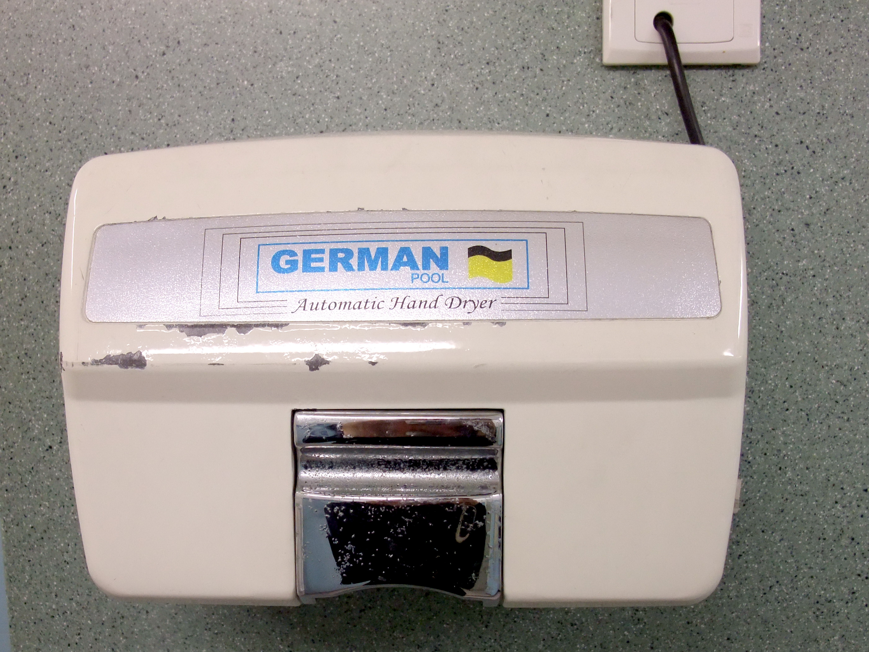 Automatic hand dryer found in a public washroom in Hong Kong.